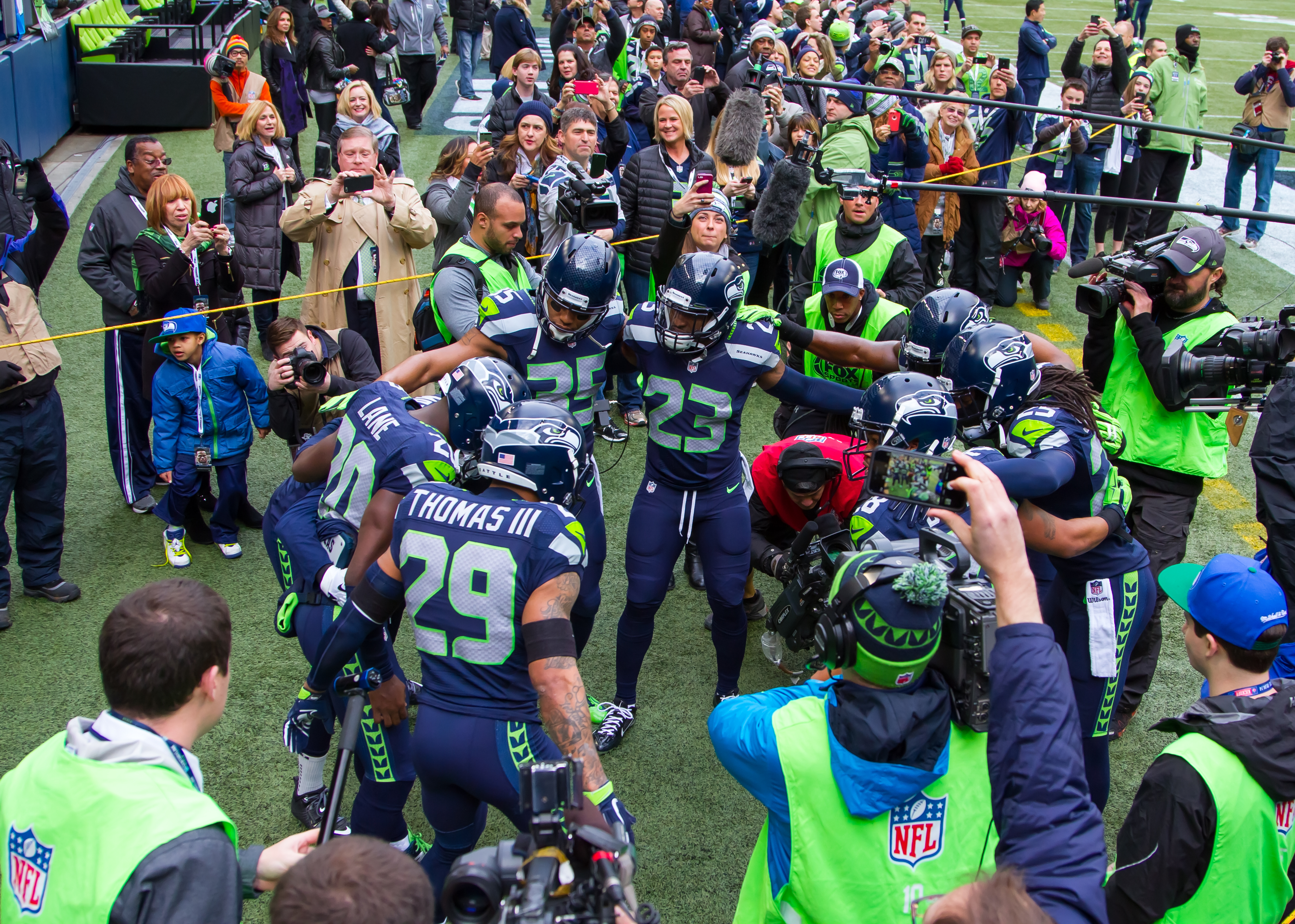 Rams at Seahawks 2014